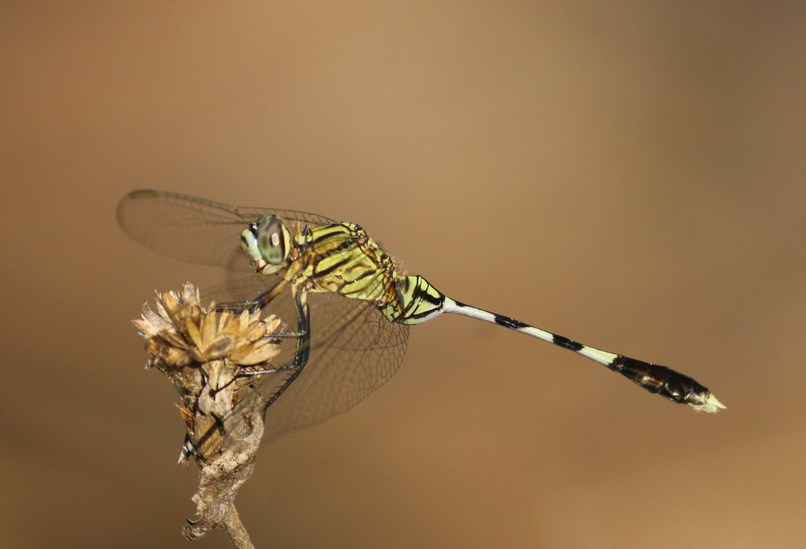 Green marsh hawk